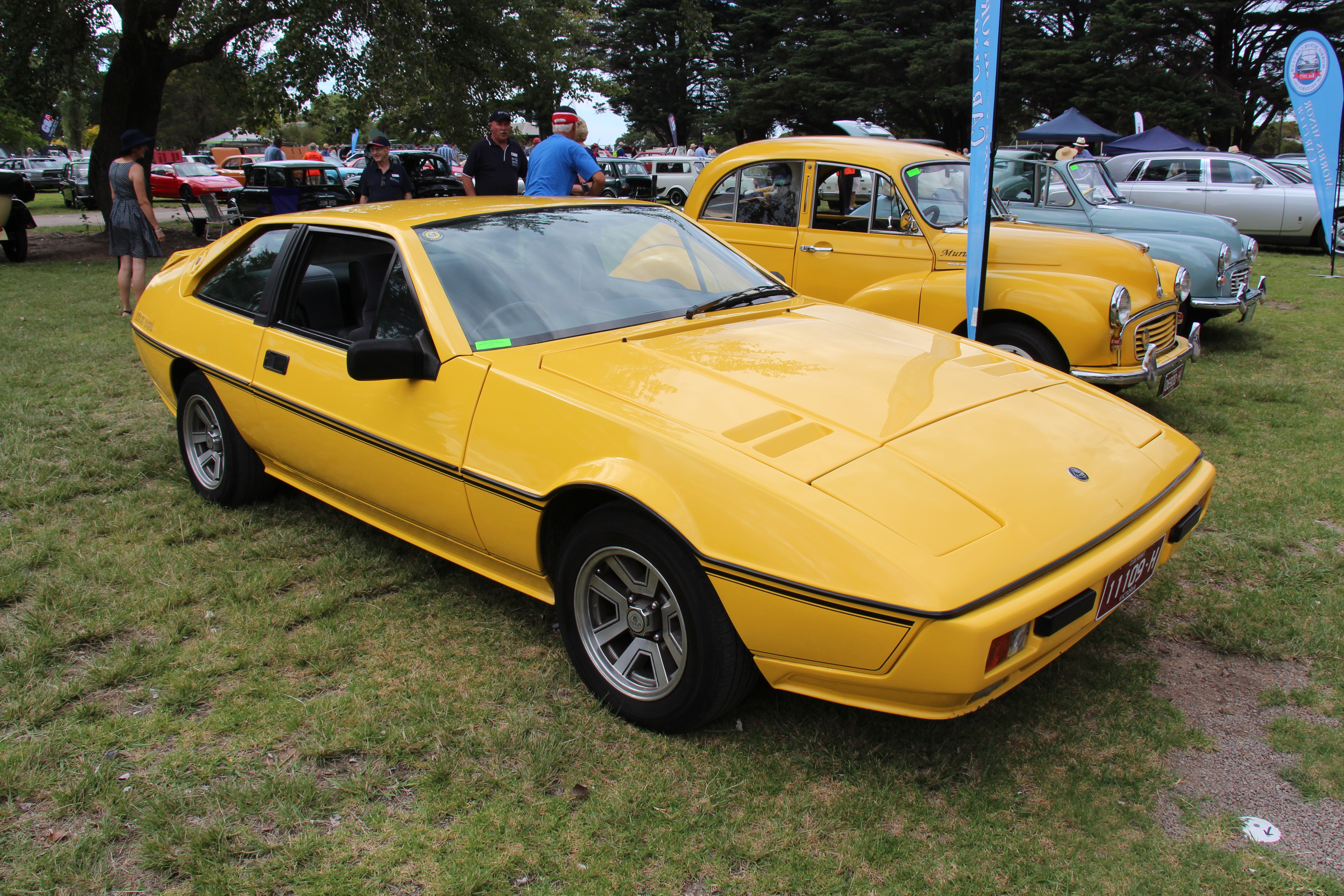 The Type 89 Lotus Excel, built from 1982 to 1992, is a front-engined, rear-wheel drive sports car designed and built by Lotus. It was based on the design of the earlier Lotus Eclat, which itself was based on the earlier Lotus Elite II. Started with 160 hp 2200cc 4 cyl. In 1984 the Excel got body coloured bumpers, a louvred bonnet and boot spoiler. 1985 got wider wheel arches and fog lamps 1986 180hp SE option 1987 SA, auto available and cruise control 1989 saw a restyled bonnet and front and rear spoilers